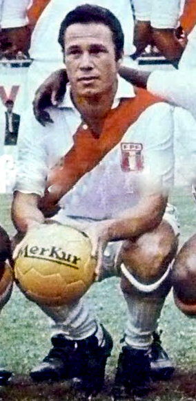 Peru national football team moments prior to a practice match against the Mexico national football team in 1968. Friendly match ahead of their participation in the 1970 FIFA World Cup, featuring players from the team that qualified them to the aforementioned tournament.